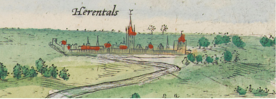 The drawing of Herentals appeared in the upper right corner of a drawing of Eindhoven related to a military event taking place in 1583.